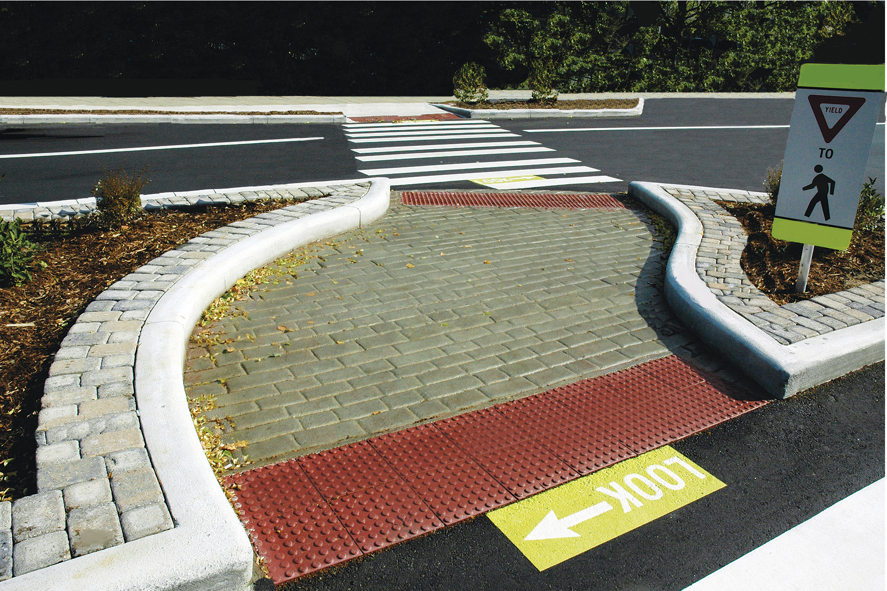 Brick red truncated dome installation in Asheville, NC. Note that the far tactile pavings on the island have been mislaid - they do not point towards the receiving end of the crossing, but diagonally away from it.